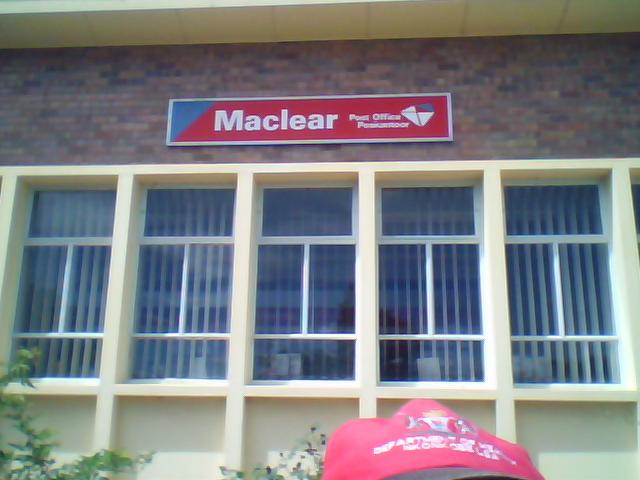 Maclear Post OfficeAfrikaans: Maclear Poskantoor